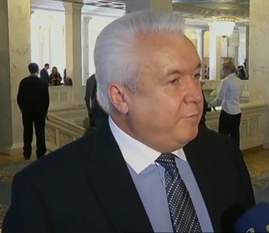 Volodymyr Oliynyk, Ukrainian politician, member of the Ukrainian Verkhovna Rada